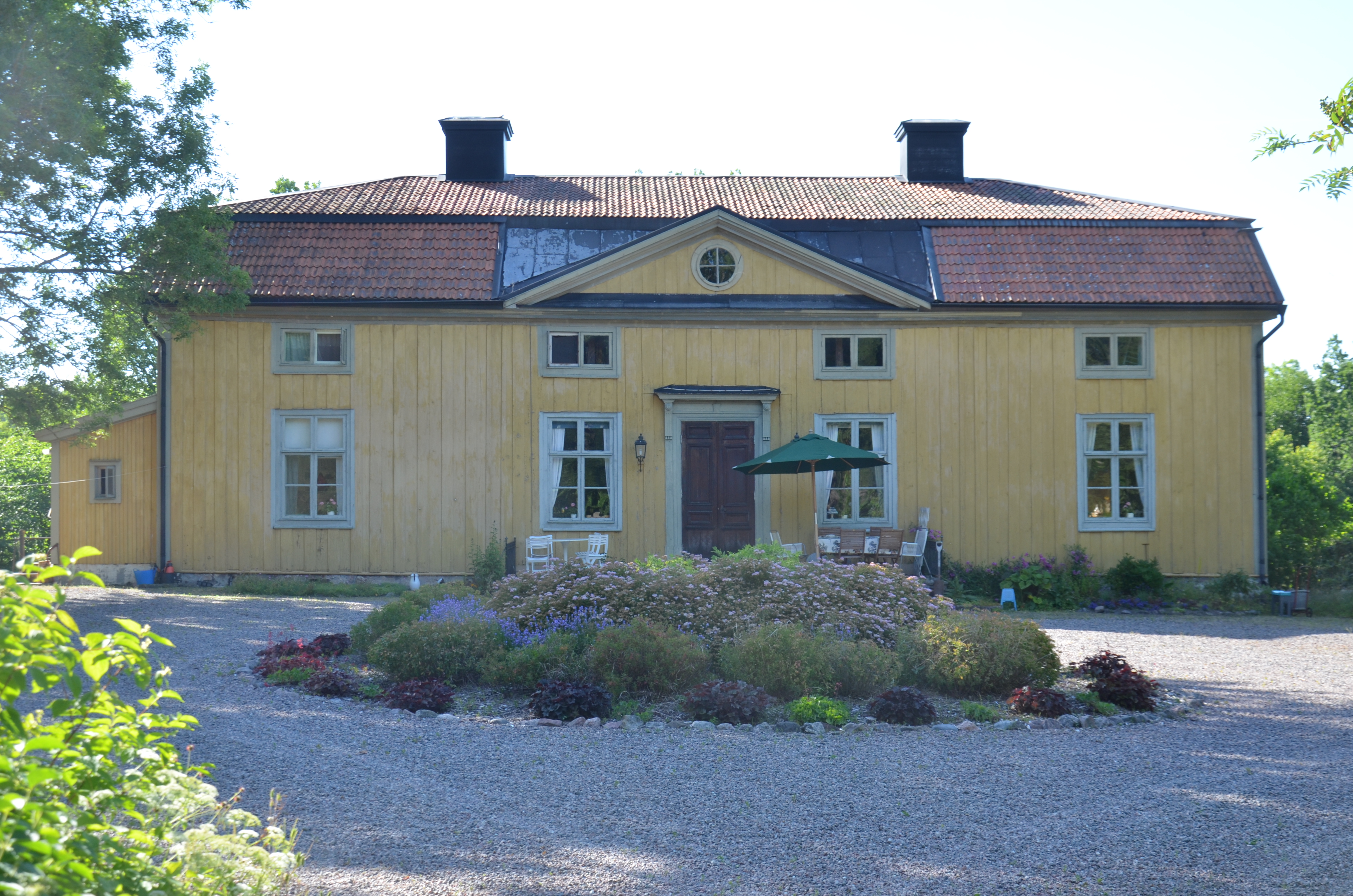 Korsnäs prästgård, Söderköpings kommun